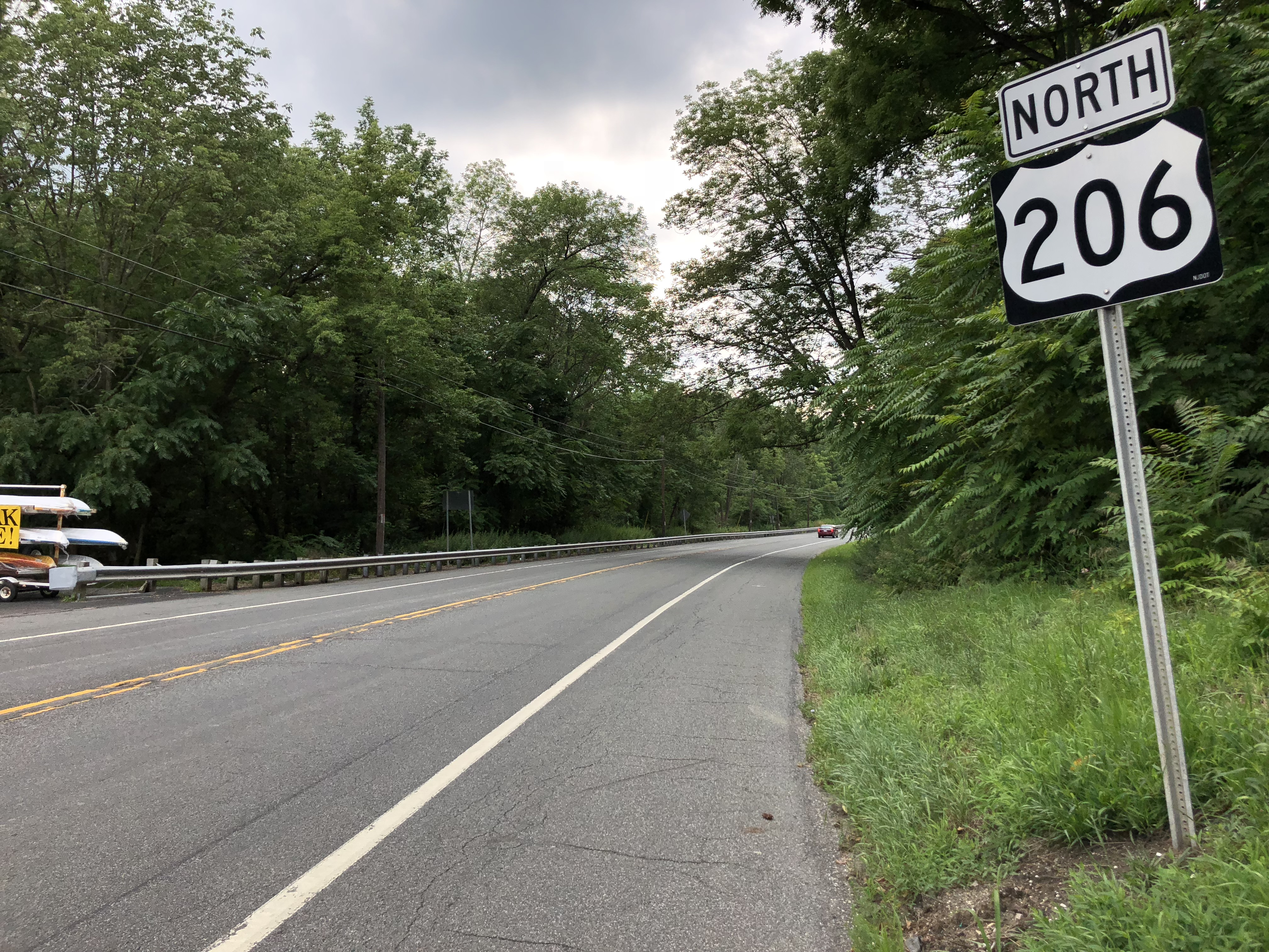 View north along U.S. Route 206 at Sussex County Route 603 (Brighton Road) in Andover Township, Sussex County, New Jersey